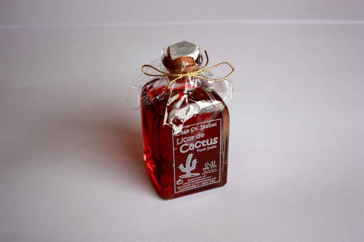 Special Cactus Licor from Canary Islands (Spain)